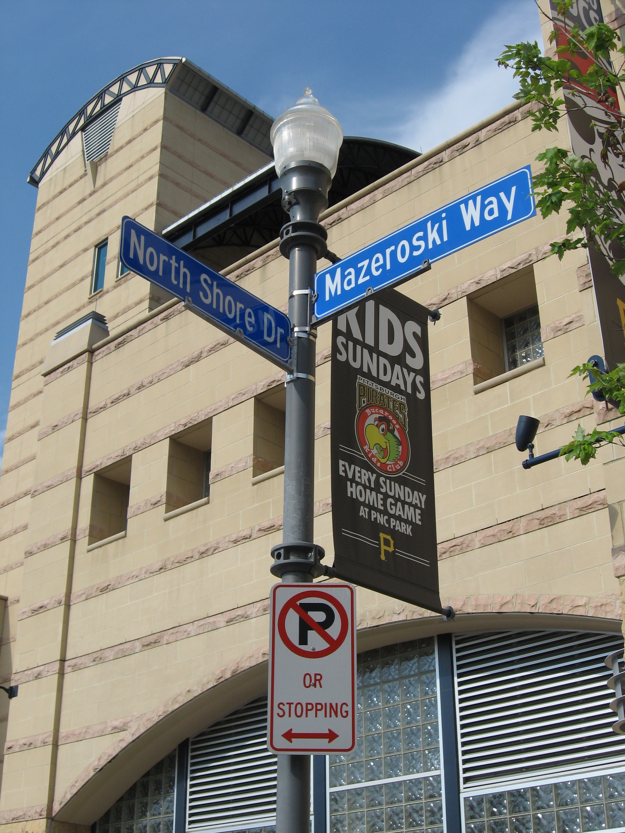 Mazeroski Way near PNC Park in Pittsburgh40°26′47.9″N 80°0′26.4″W / 40.446639°N 80.007333°W